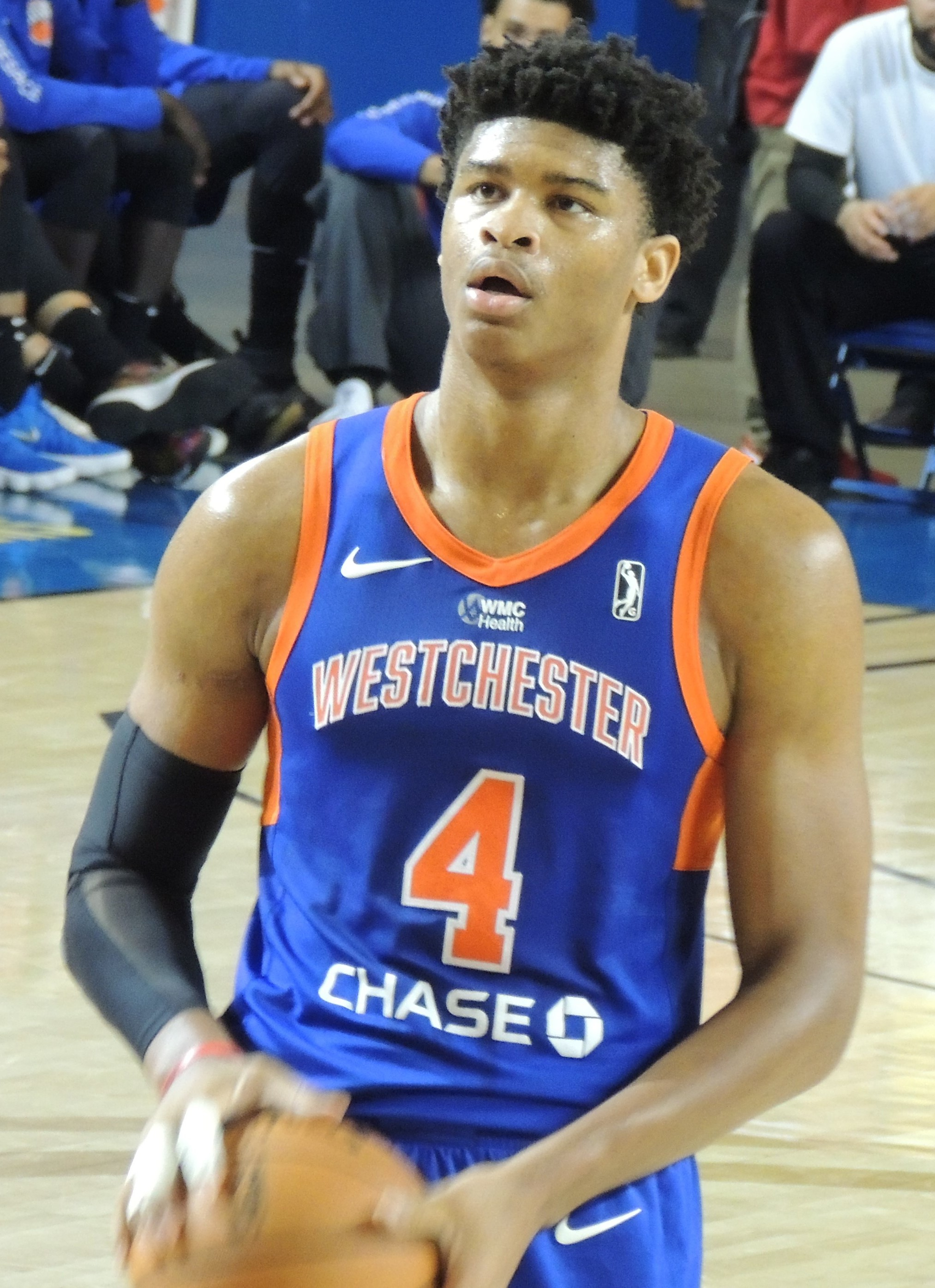 Westchester Knicks player Isaiah Hicks